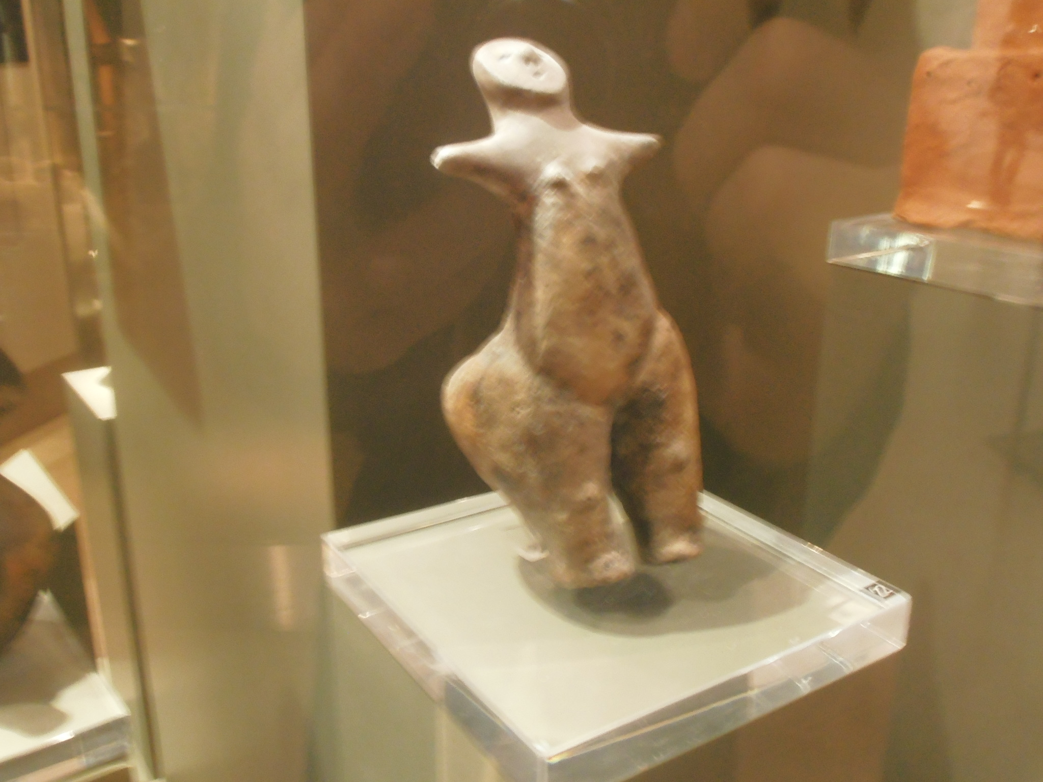 Neolithic Venus figurine with steatopygia. Produce of the Körös culture. Found in Méhtelek, Hungary